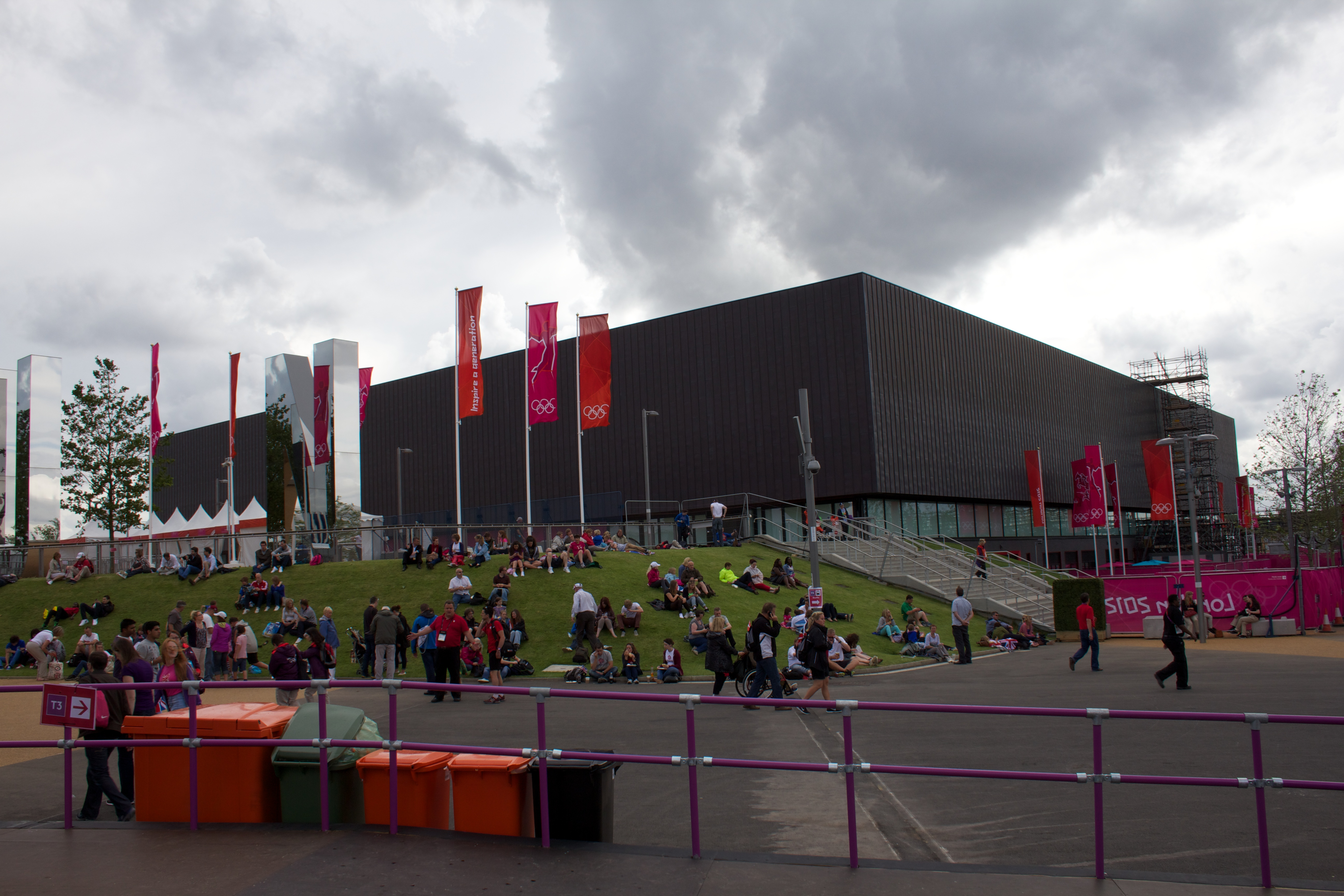 View towards the Copper Box stadium.